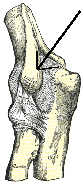 Left elbow joint, showing posterior and external ligaments.